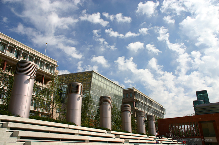 국민대학교